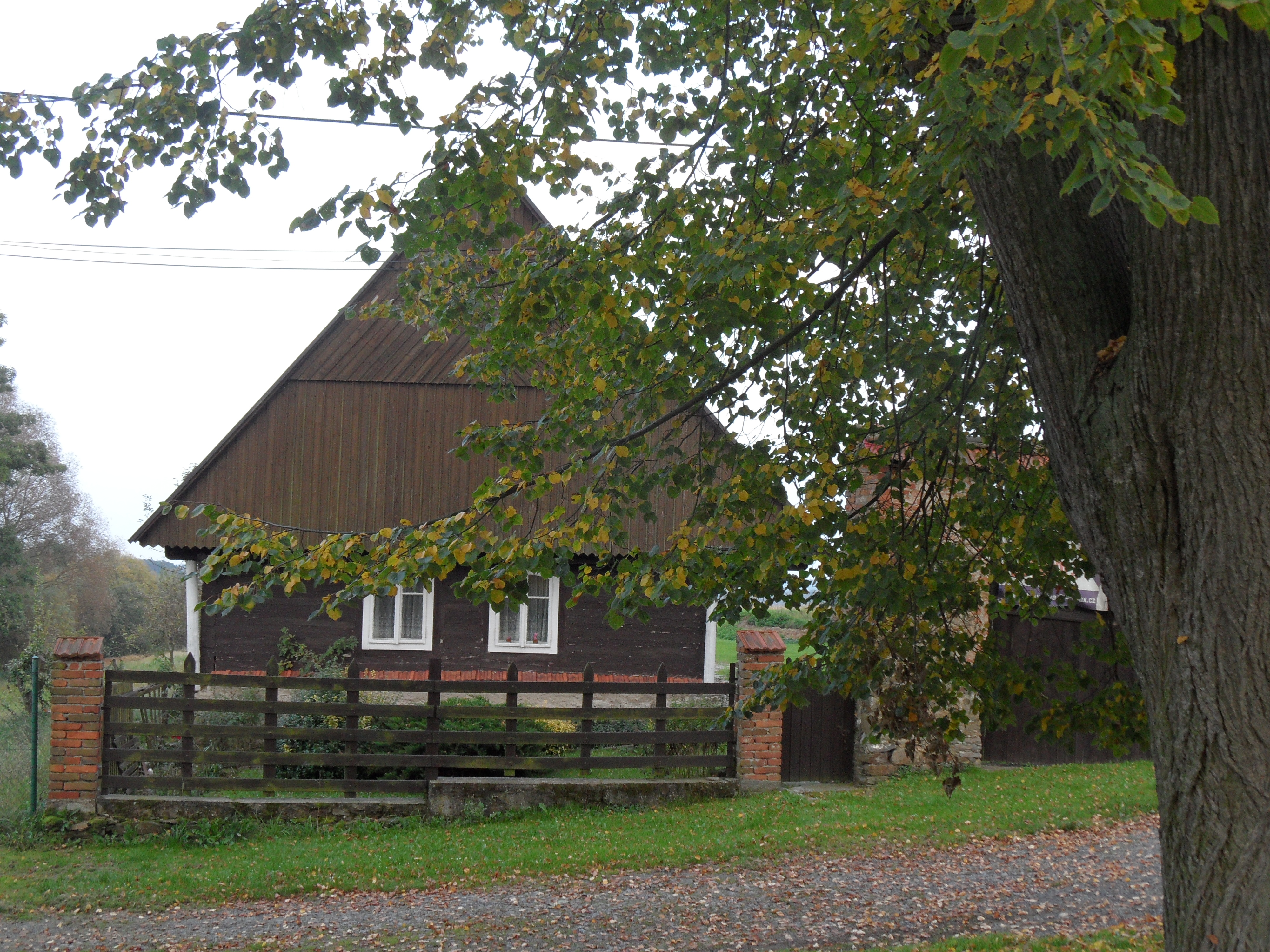 Miletice_(Nepoměřice) A. Folk Architecture (behind Tree), Kutná Hora District, the Czech Republic.